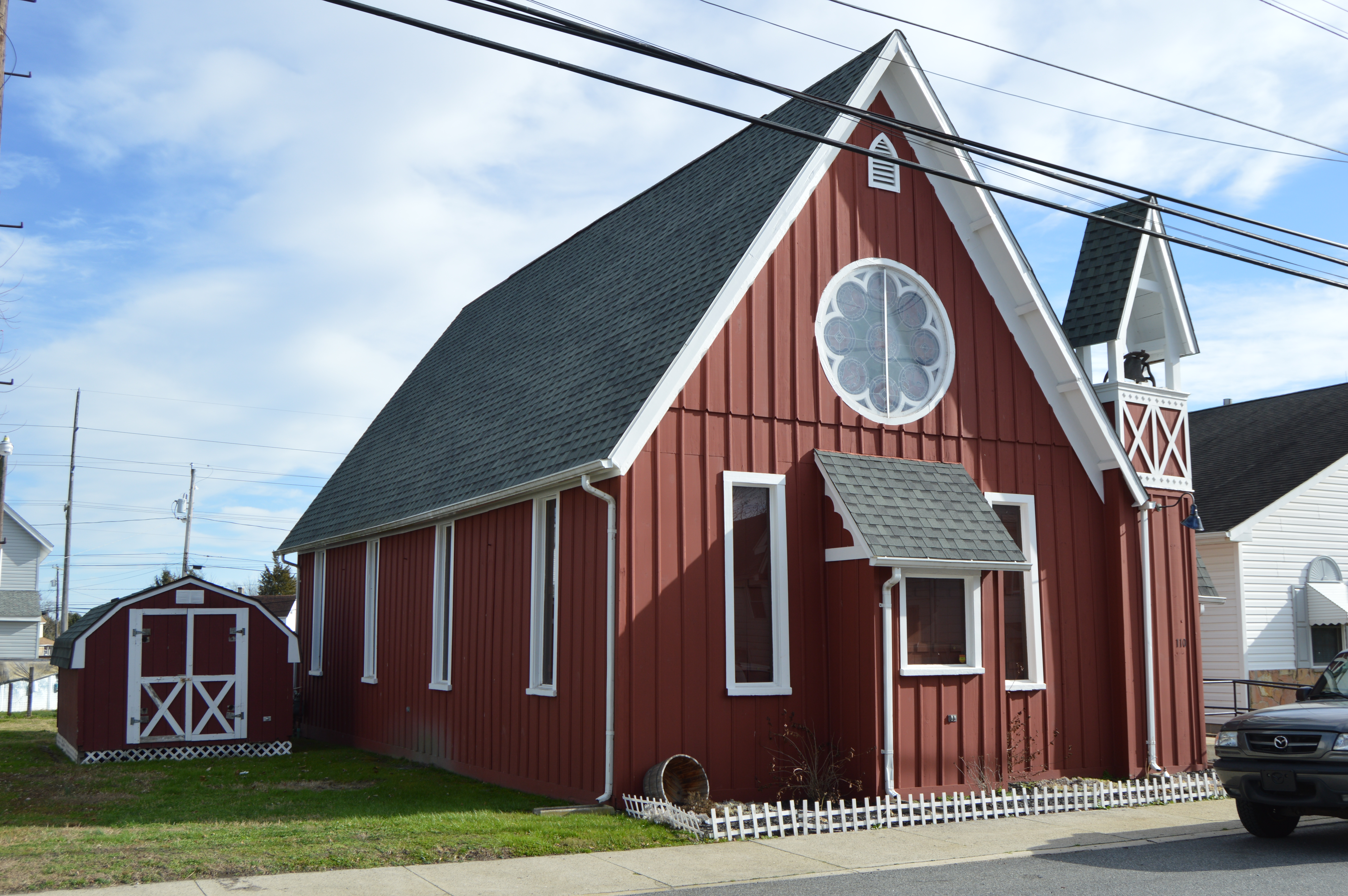 Front and northern side of the former St. Stephen's Episcopal Church, located at 110 Fleming Street in Harrington, Delaware, United States. Built in 1876, it is listed on the National Register of Historic Places.